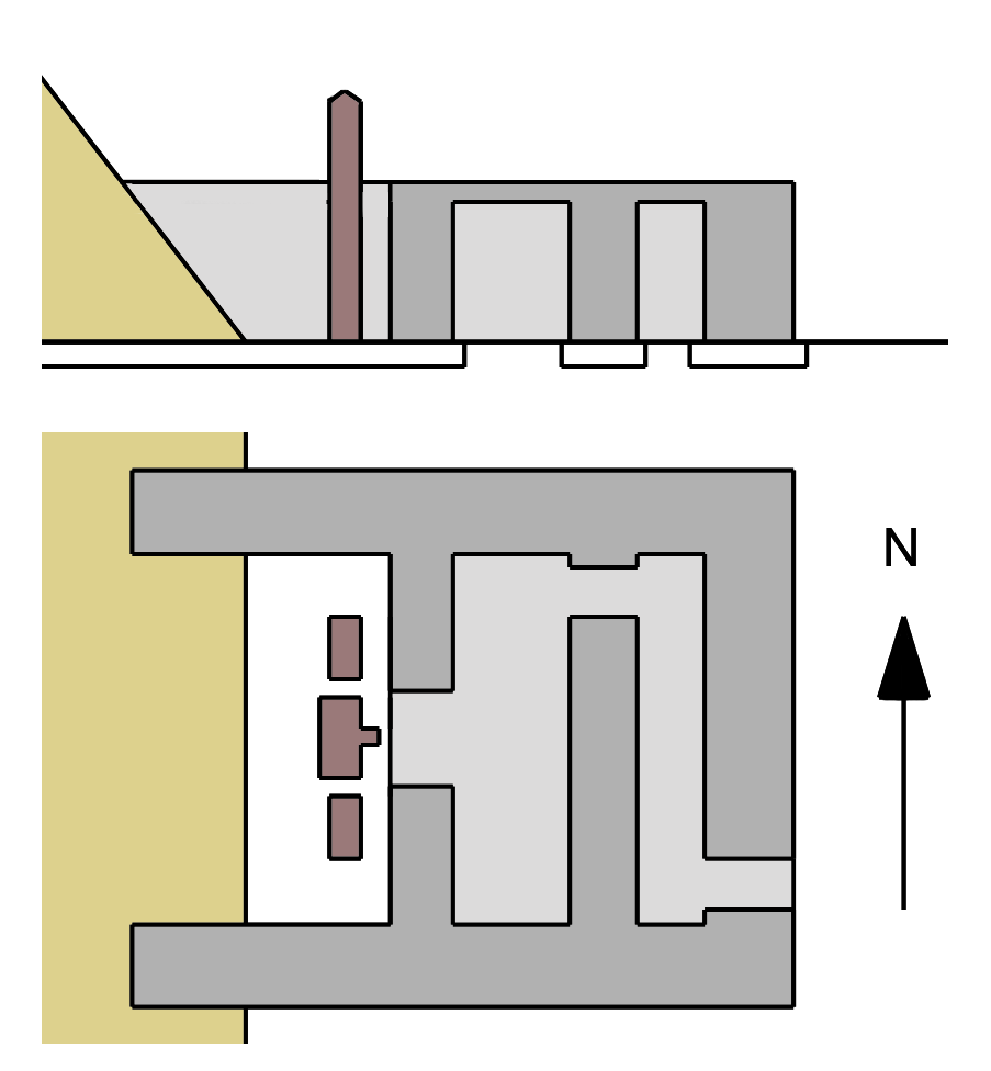 Pyramid Temple of the Meidum pyramid